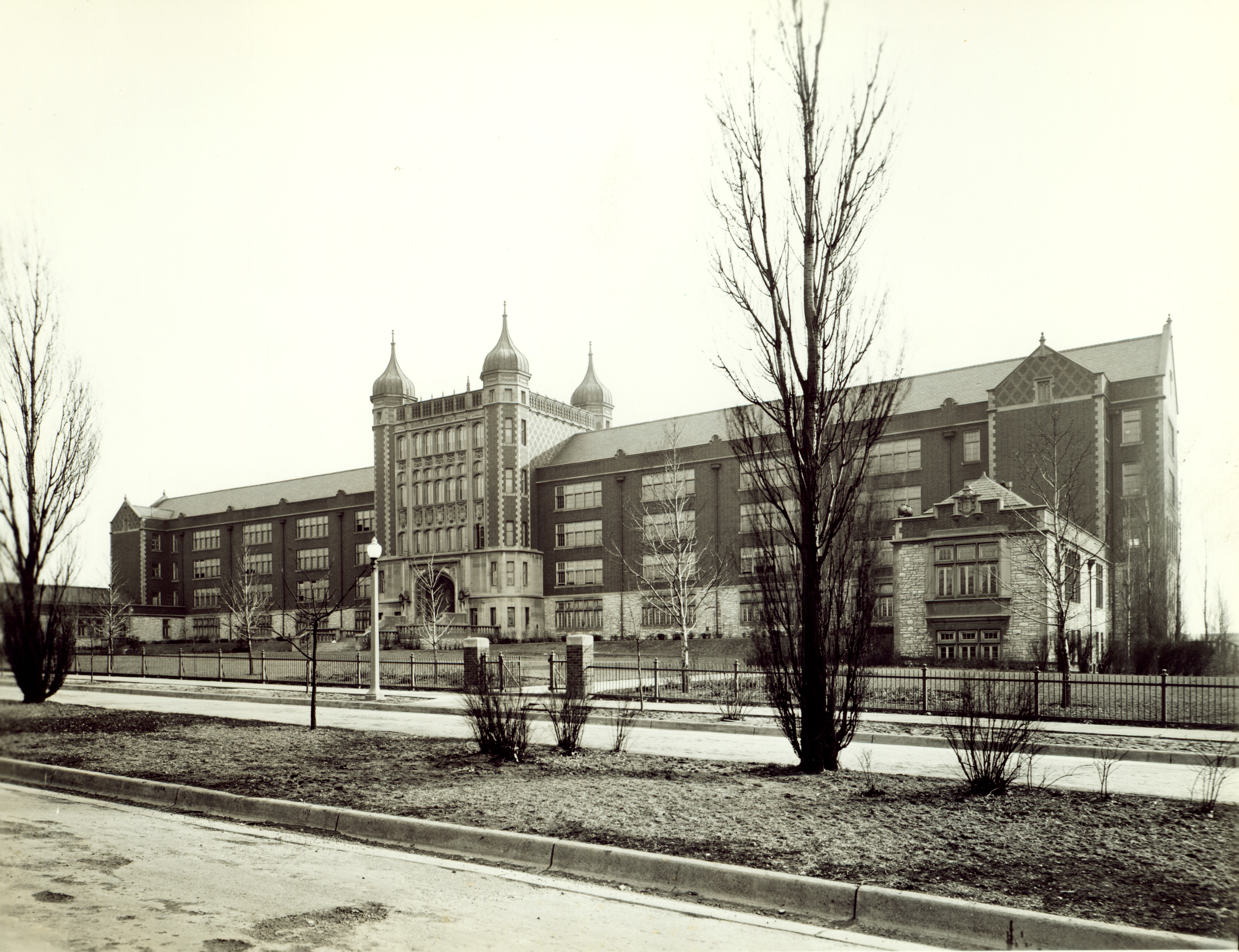 Roosevelt High School. 3230 Hartford Street. Photograph by W.C. Persons, 1937. Missouri Historical Society Photographs and Prints Collections. NS 33299 (scan). Scan © 2006, Missouri Historical Society.